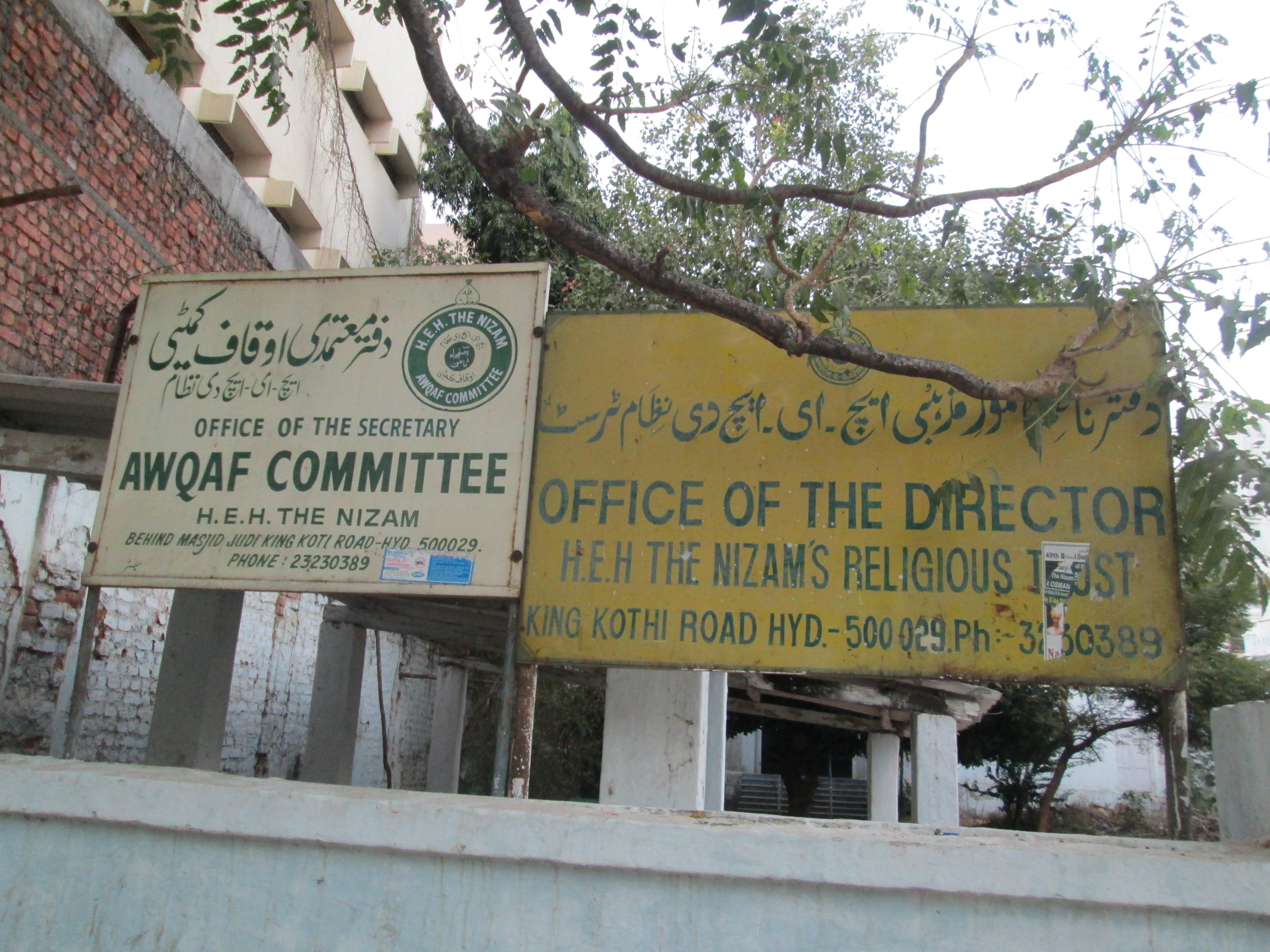 HEH Nizam's Religious Trust and Auqaf Office